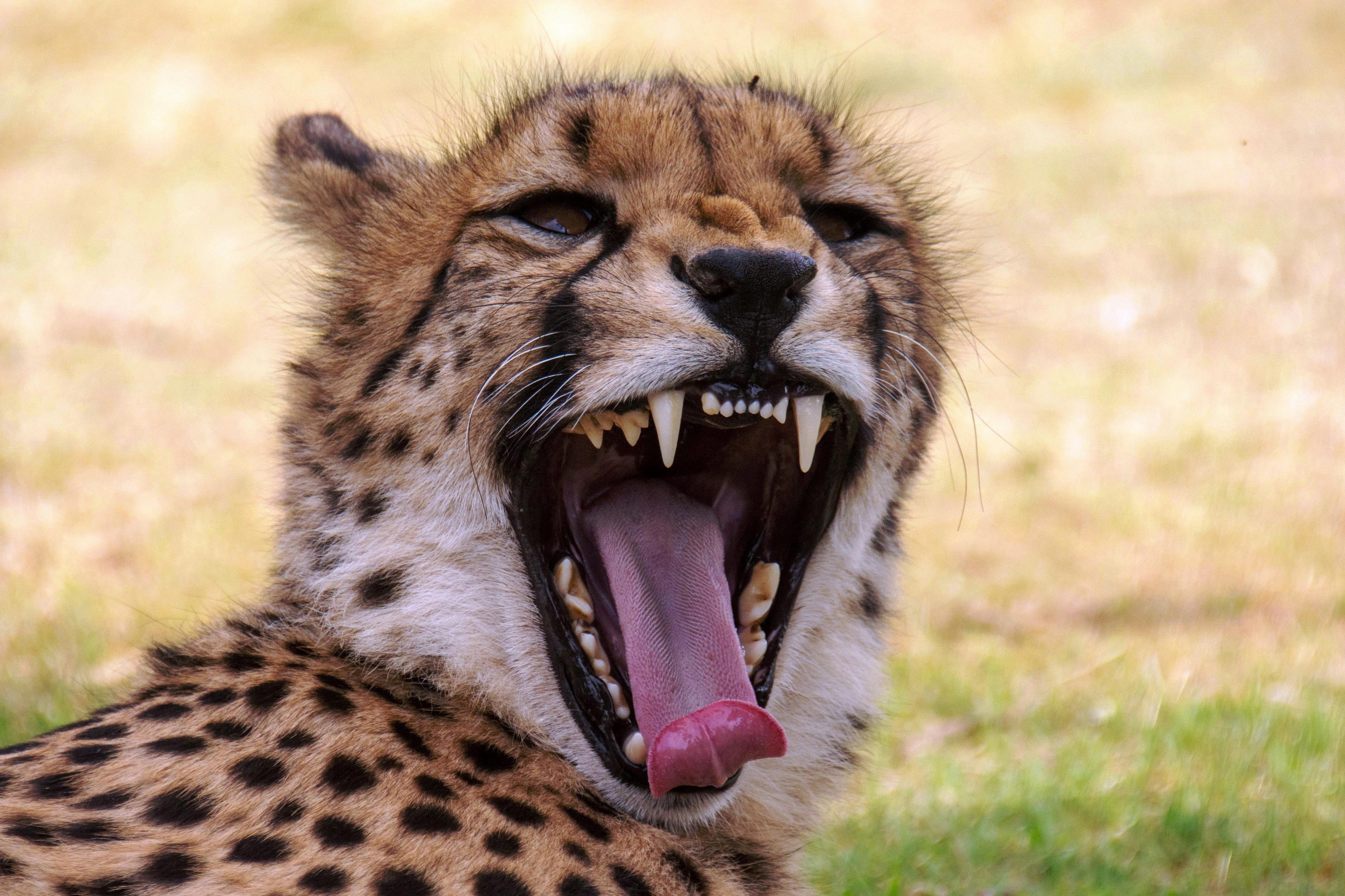 South Africa - Cheetah Experience